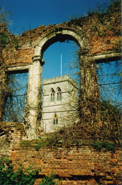 The two churches of St John the Evangelist, Stanmore, Middlesex. This view is of the west tower of the 19th-century church, seen through a window of the ruin of the 17th-century church.The 19th-century church was built as 17th-century one had become unsafe. The old church is now partly ruined, but well maintained.